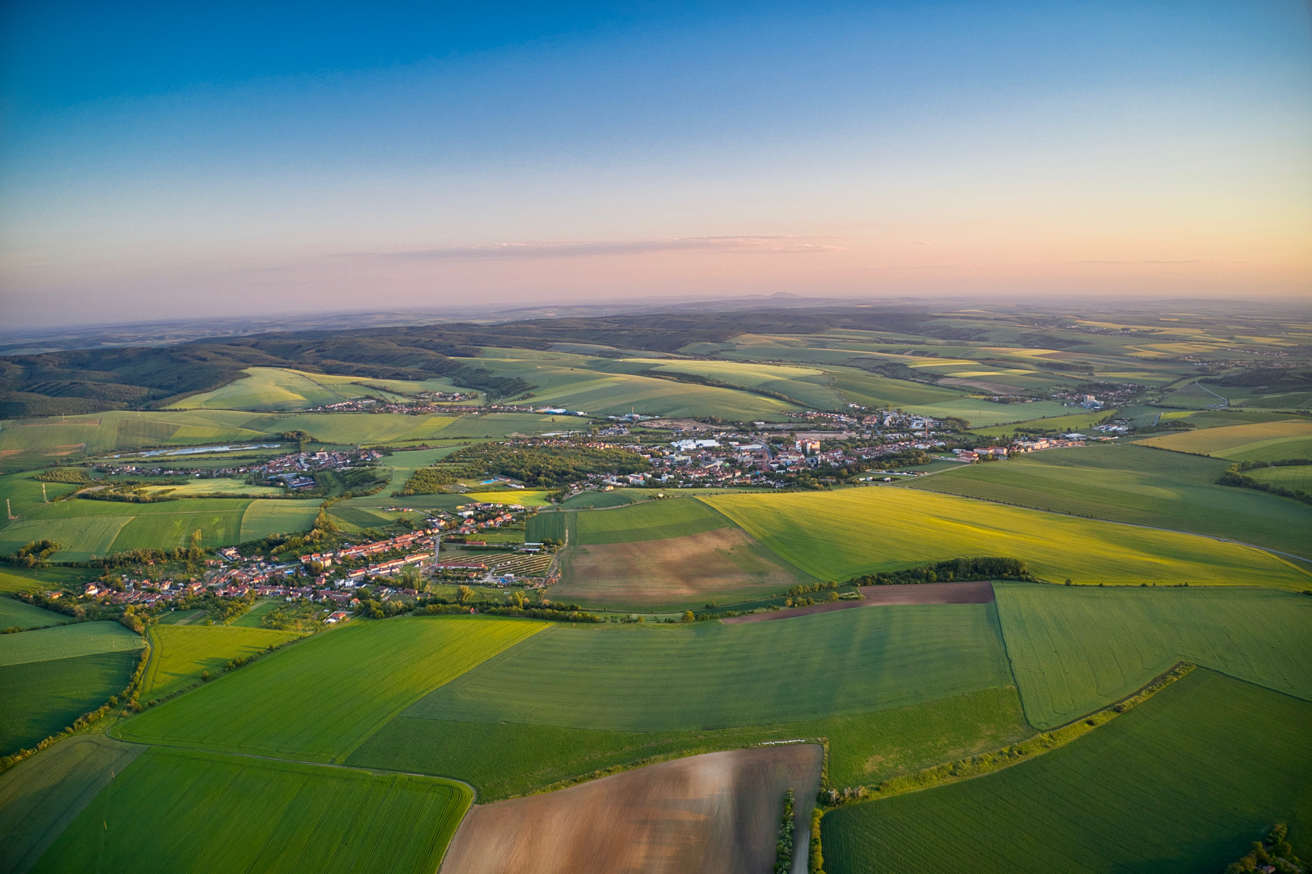 Panoramatic image of Bučovice and the surrounding landscape from a height of 500 m